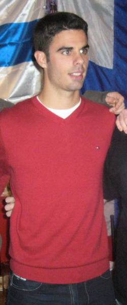 He is a spanish football player